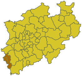 Location of the region "Städteregion Aachen" in North Rhine-Westphalia, Germany